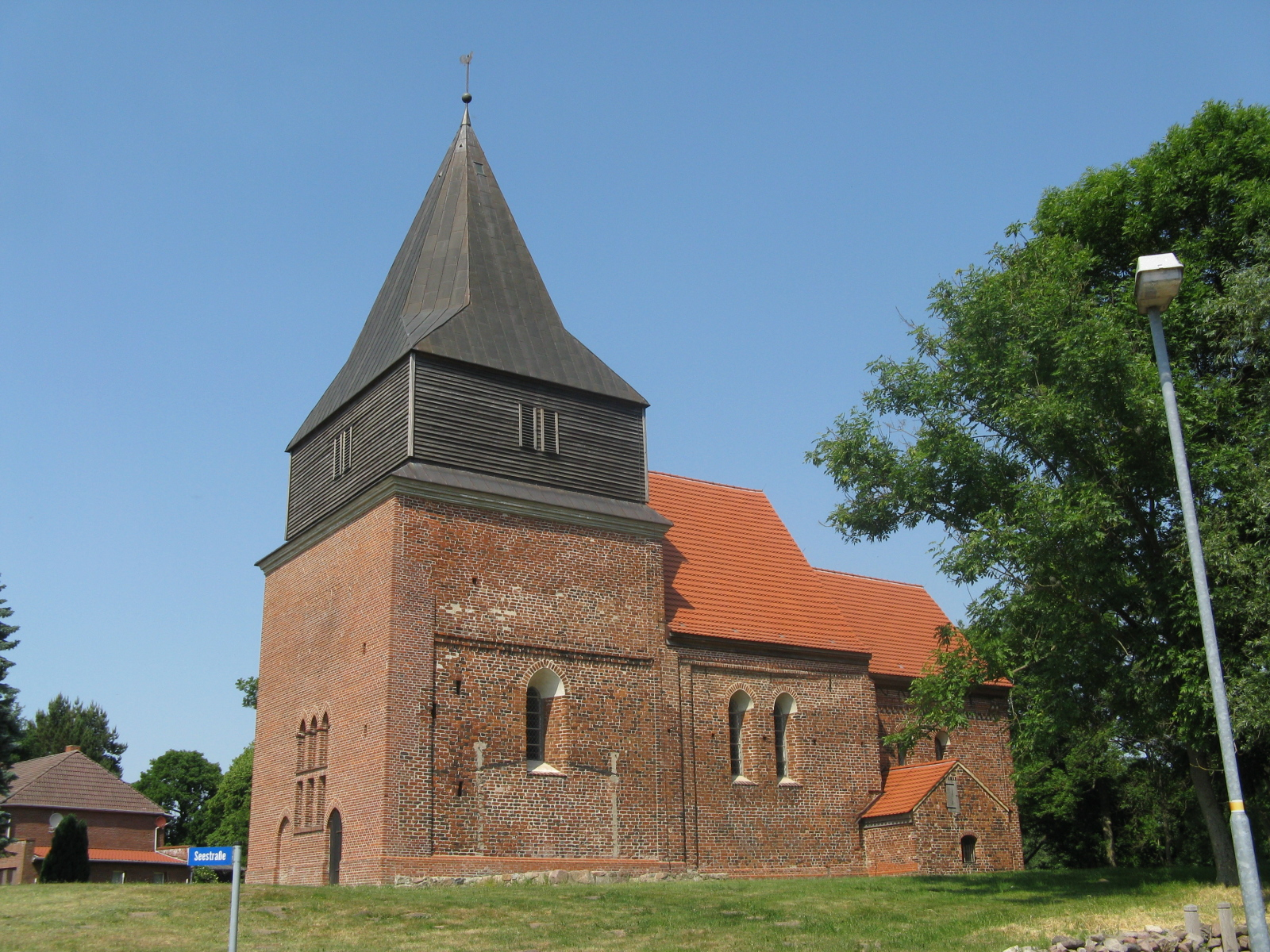 Church of Döbbersen, district Ludwigslust-Parchim, Mecklenburg-Vorpommern, Germany